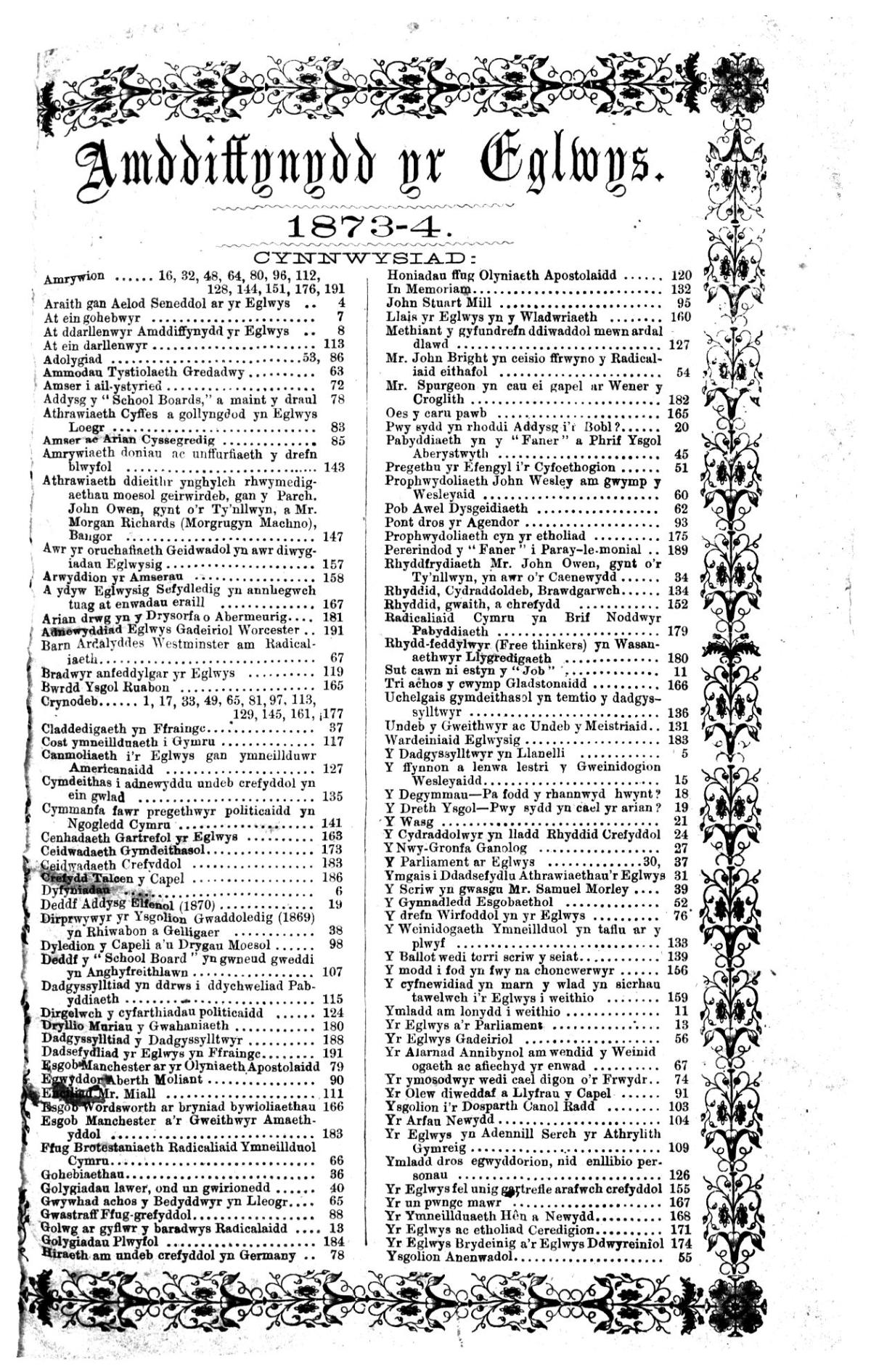 A monthly Welsh language anti-nonconformist periodical that served the Established Church. The periodical's main focus was on religious matters alongside articles of a more general subject matter. The periodical was edited by the Reverend Henry Thomas Edwards (1837-1884), the Reverend David Walter Thomas (Gwallter Geraint o Geredigion, 1829-1905) and Canon Daniel Evans (1832-1888). Associated titles: Y Llan (1882).